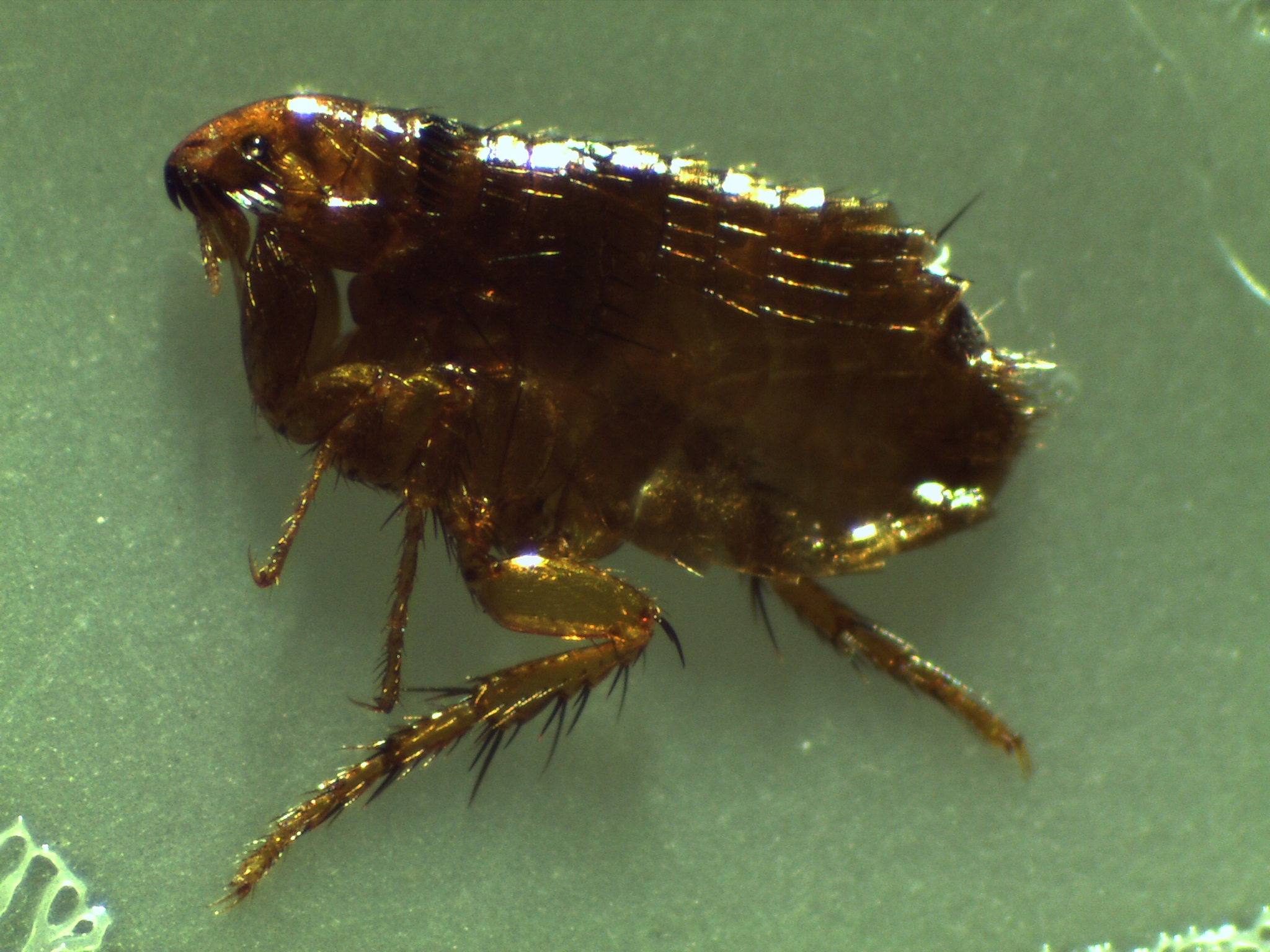 Cat Flea picture under 35x zoom optical microscope